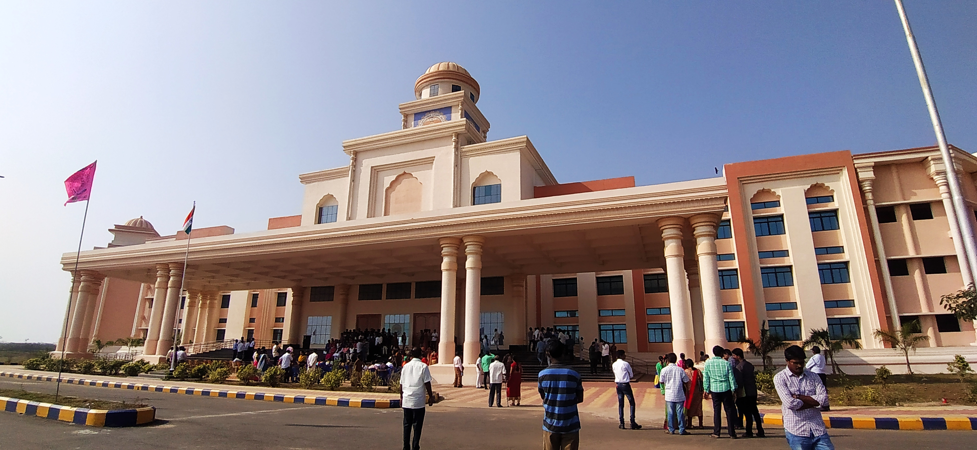 This is the academic building of Krishna University and Krishna University College of Engineering and Technology is also is running in this block.